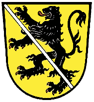 Coat of arms of german city Herzogenaurach.